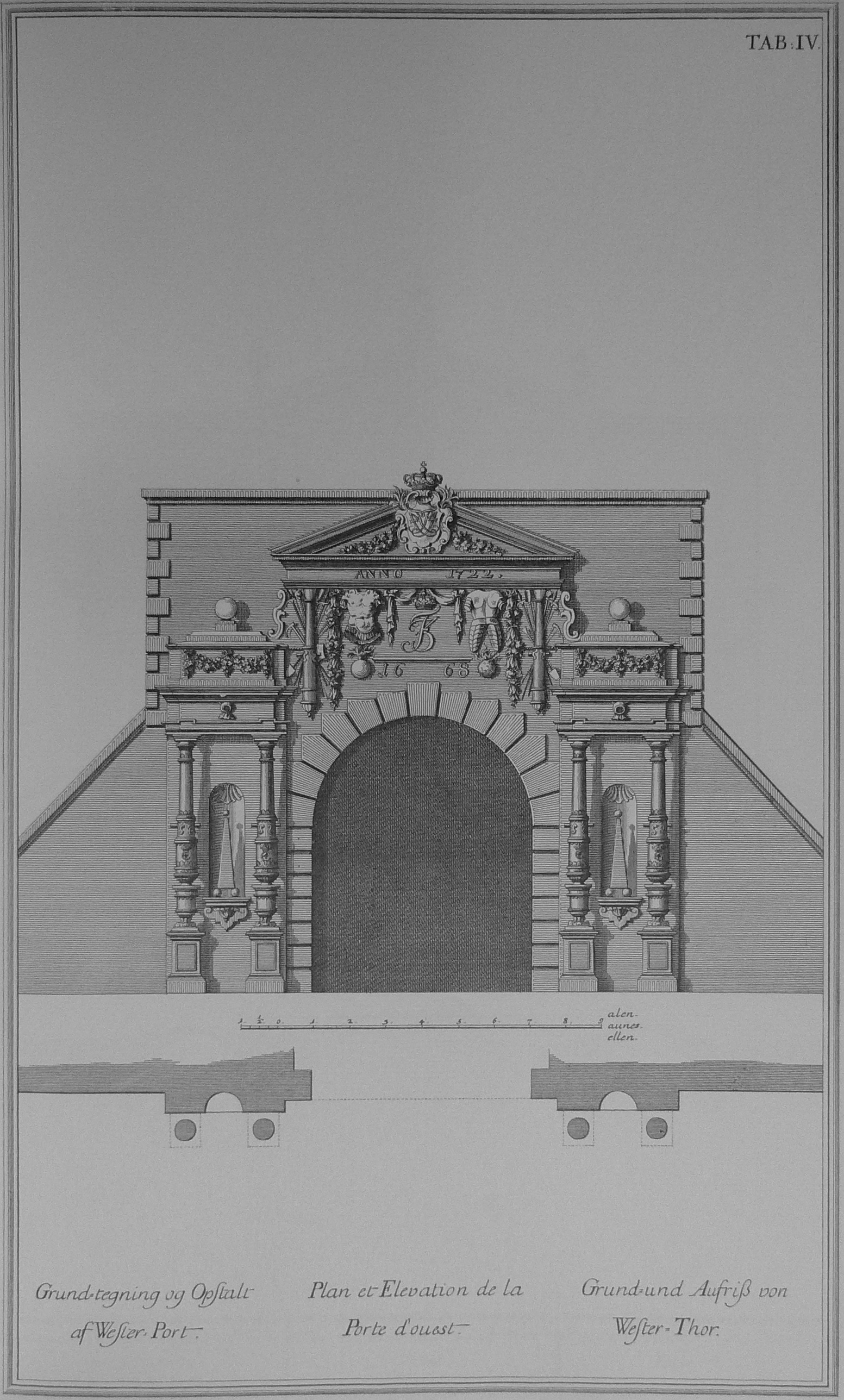 Plan and elevation of Vesterport, town gate of Copenhagen